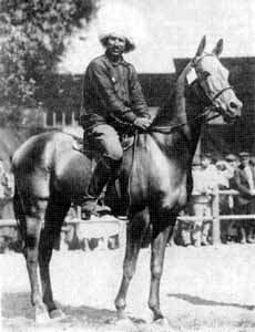 The famous Akhal-Teke stallion Mele Koush born in Russia in 1909.